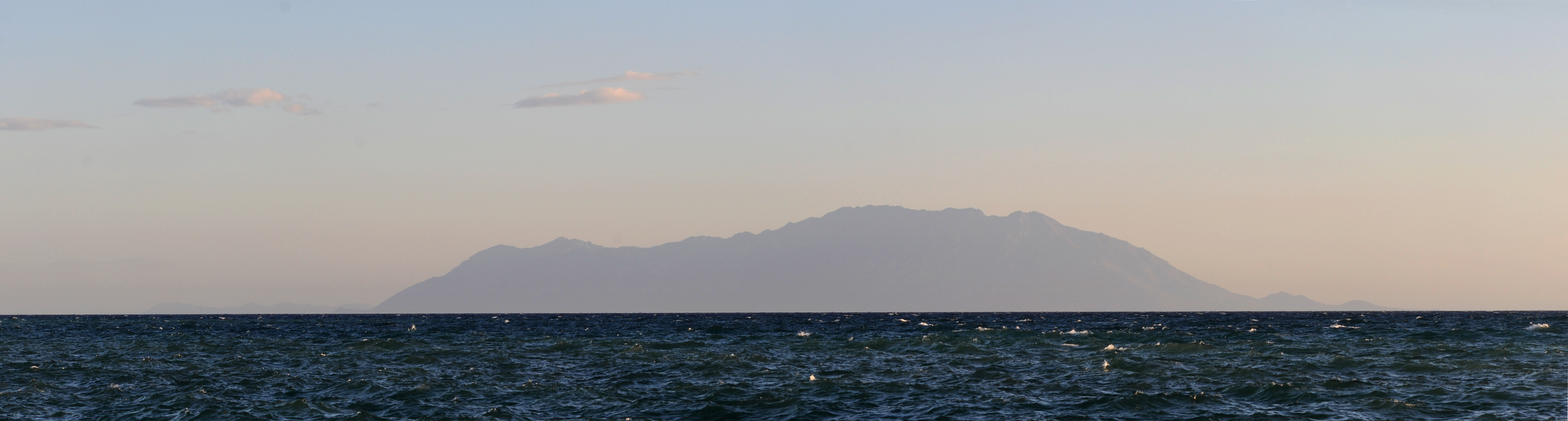 Samothrace panoramic view from Marmaritsa beach, Maronia, Rhodope, Thrace, Greece.